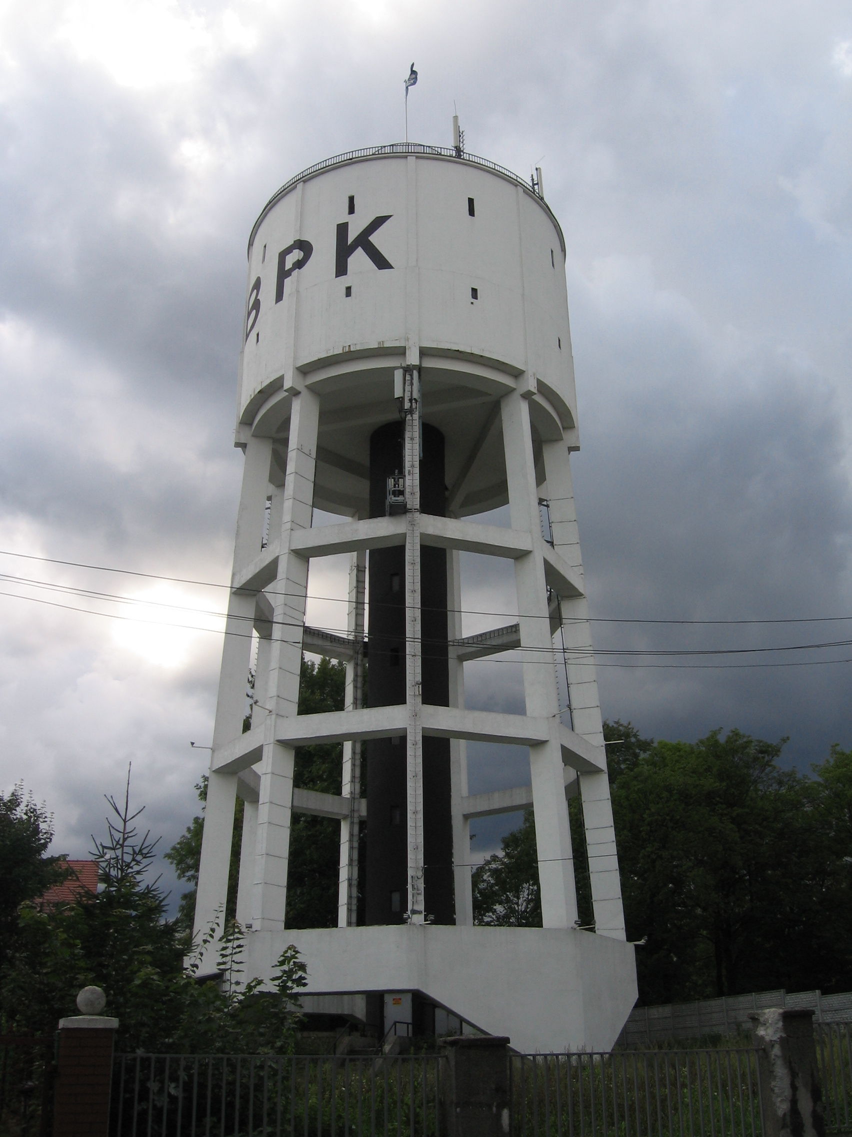 Water tower from 1936 in Bytom, Oświęcimska street, Poland, cultural heritage monument (A/472/2016 in 16.03.2016).